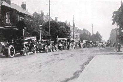 Original description: "Motor-Cars waiting outside the All England Ground at Wimbledon during the Ladies' challenge round, 1906."